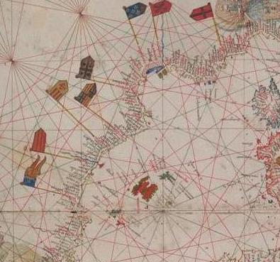 Image of flags in the Mediterranean coast. Atlas from Grazioso Benincasa, made in 1473.